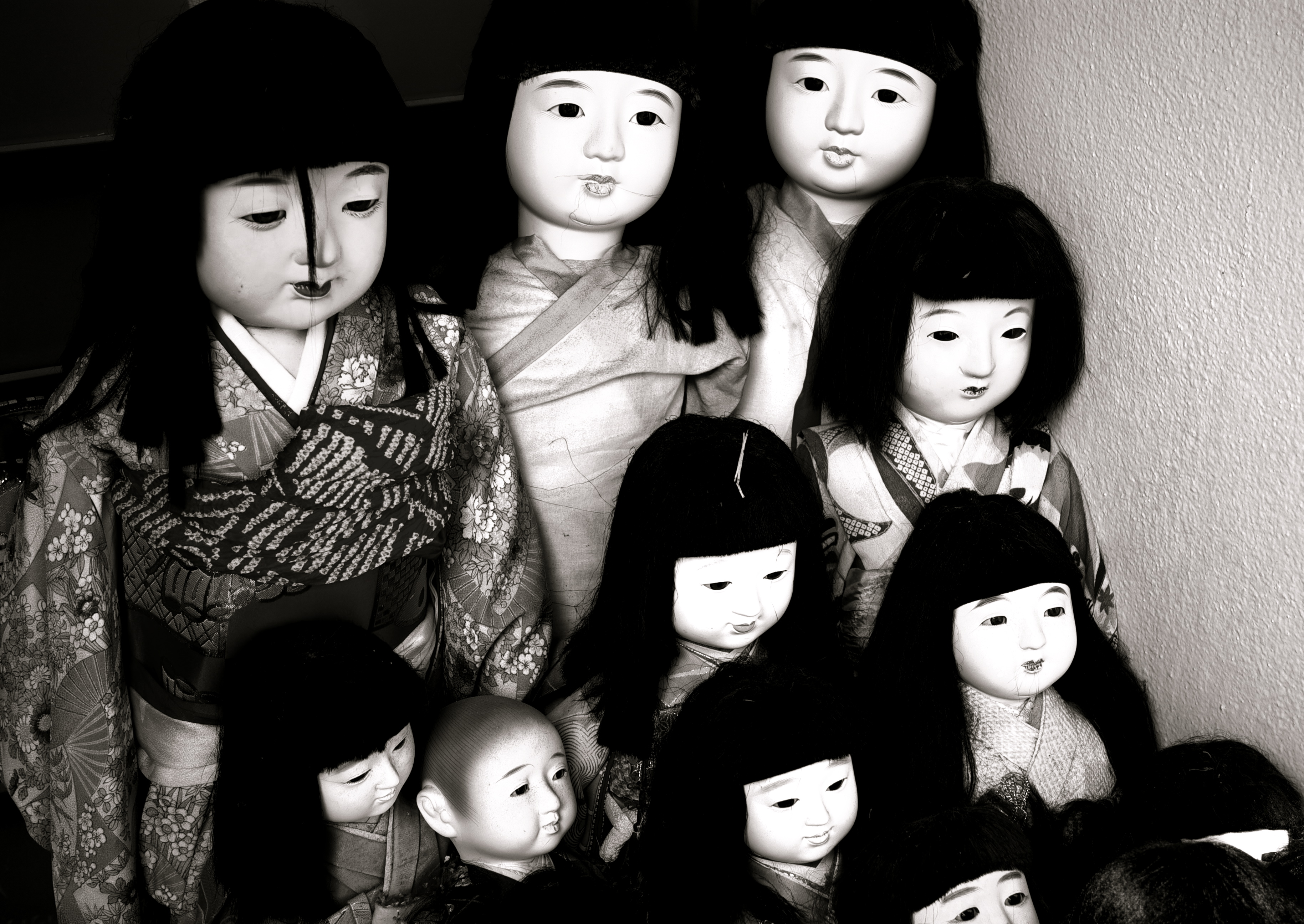 Ichimatsu ningyō, Ichimatsu dolls, traditional dress-up dolls of Japan originating in the mid-Edo period.